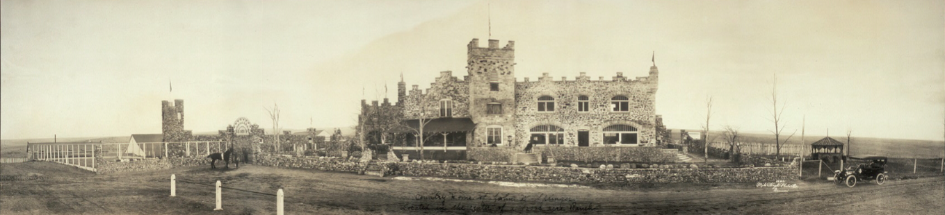 John W. Springer Country Ranch, Colorado, ca. 1910